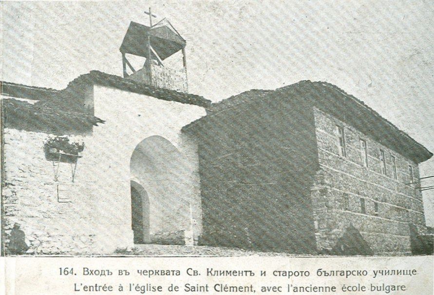 St. Kliment in Ohrid and bulgarian school